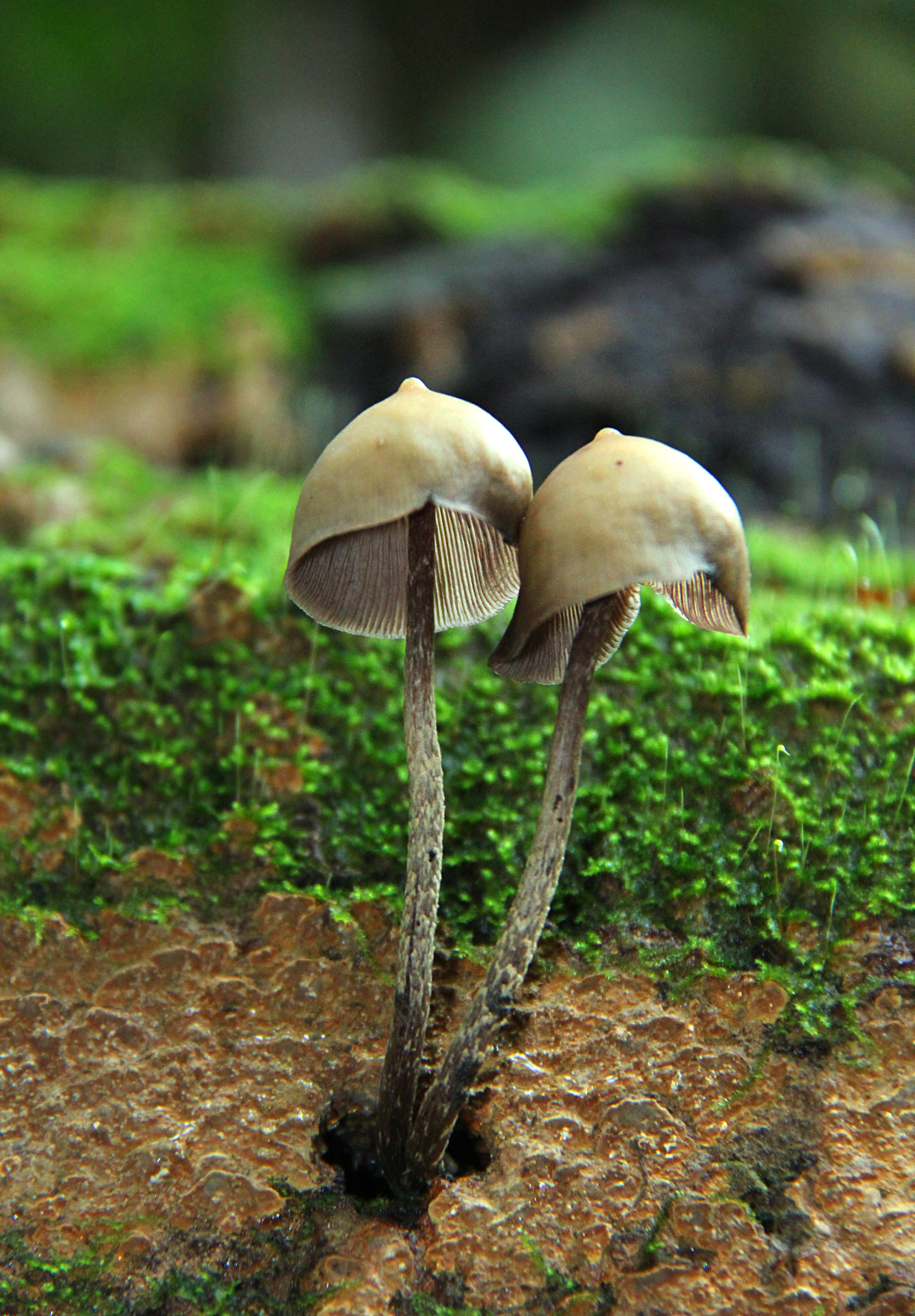 A fruit body of the psychedelic mushroom Psilocybe yungensis Singer & A.H. Sm (1958). Specimen photographed in Jalisco, Mexico. See Mushroom Observer page for more collection details.